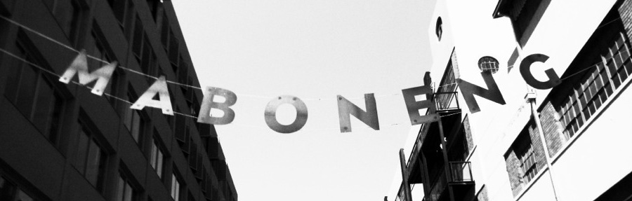 Welcome to Maboneng